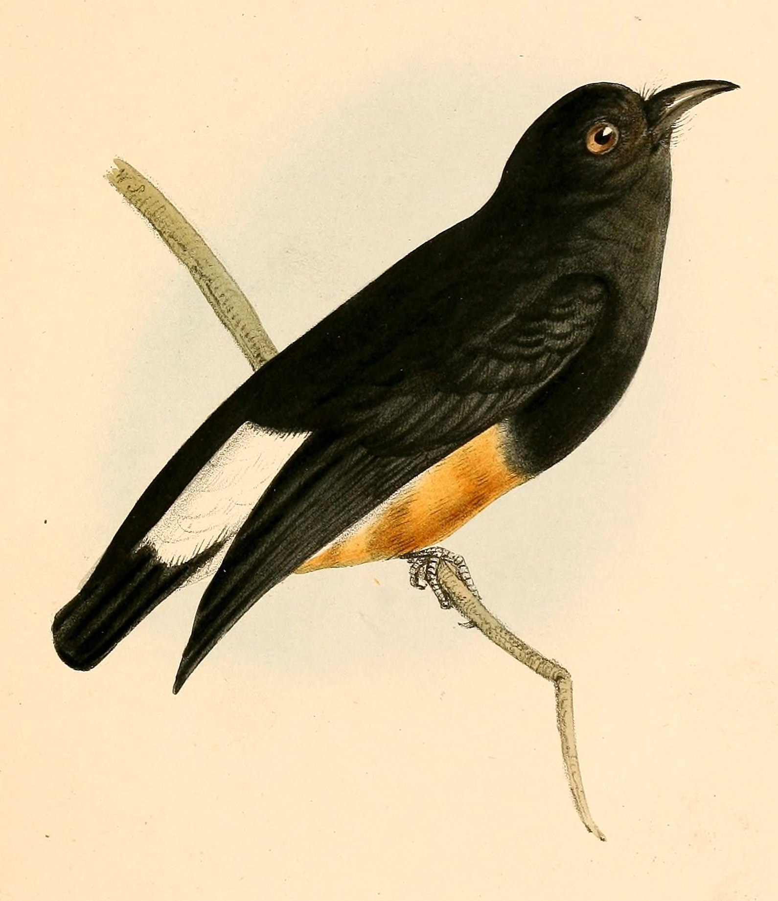 Lypornix tenebrosa = Chelidoptera tenebrosa (Swallow-winged Puffbird)